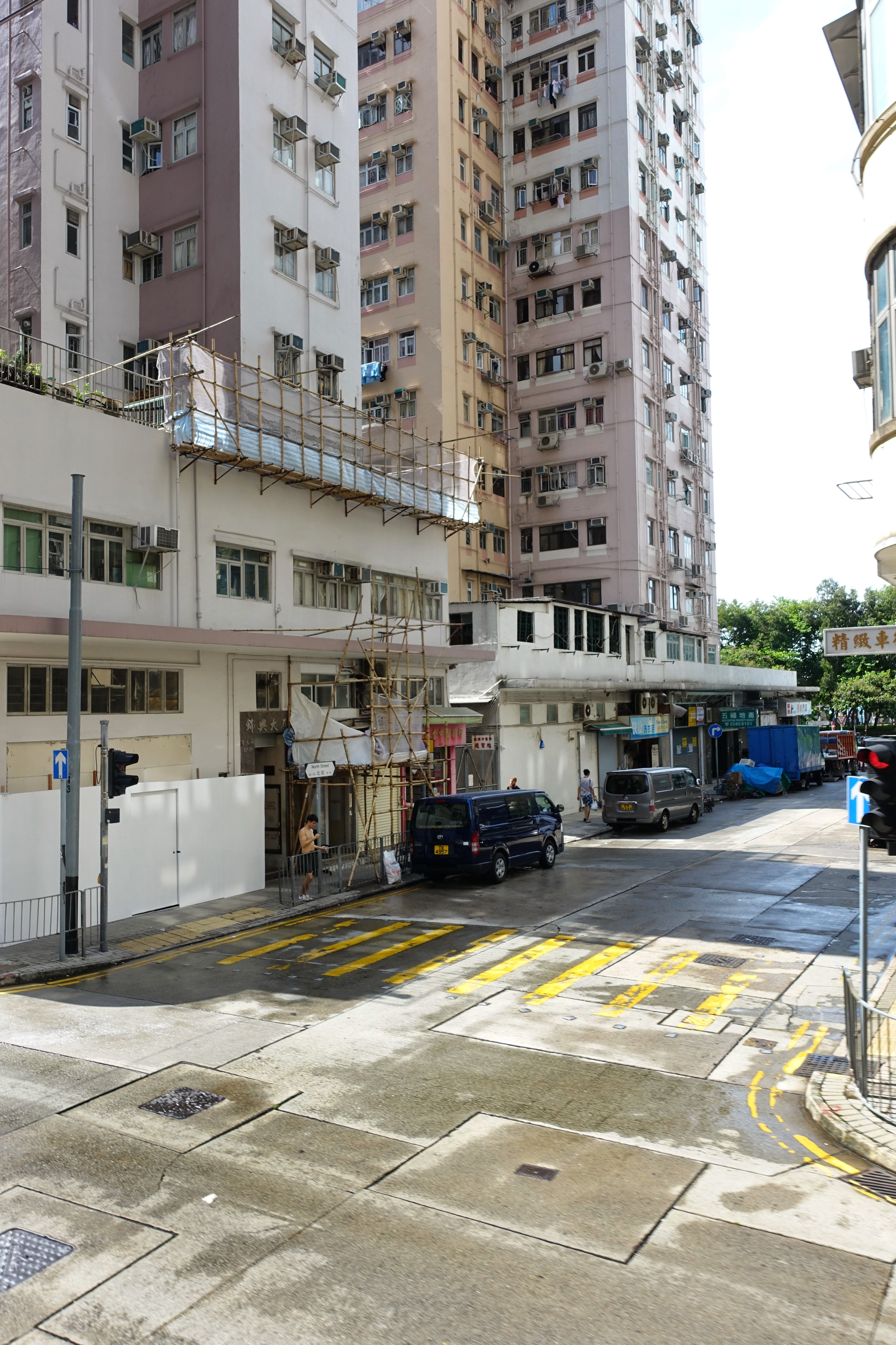 North Street and Catchick Street, Hong Kong.